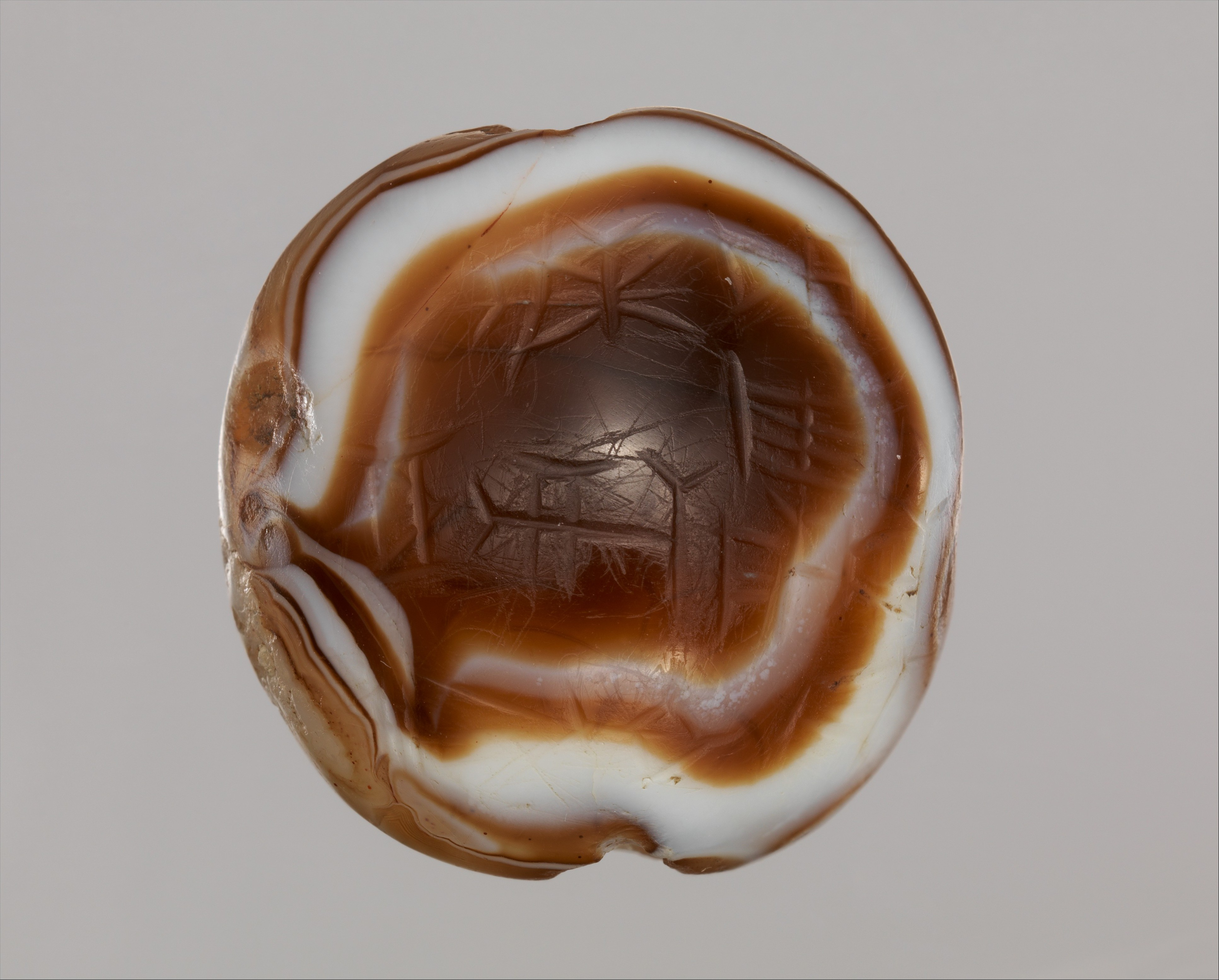 Eye-like bead made from Agate. The inscription indicates that it is a votive offering dedicated to the goddess Ninlil, wife of the god Enlil, by a king named Kurigalzu (I or II) of Babylon (14th Century BC), during the Kassite dynasty (1595-1155 BC).